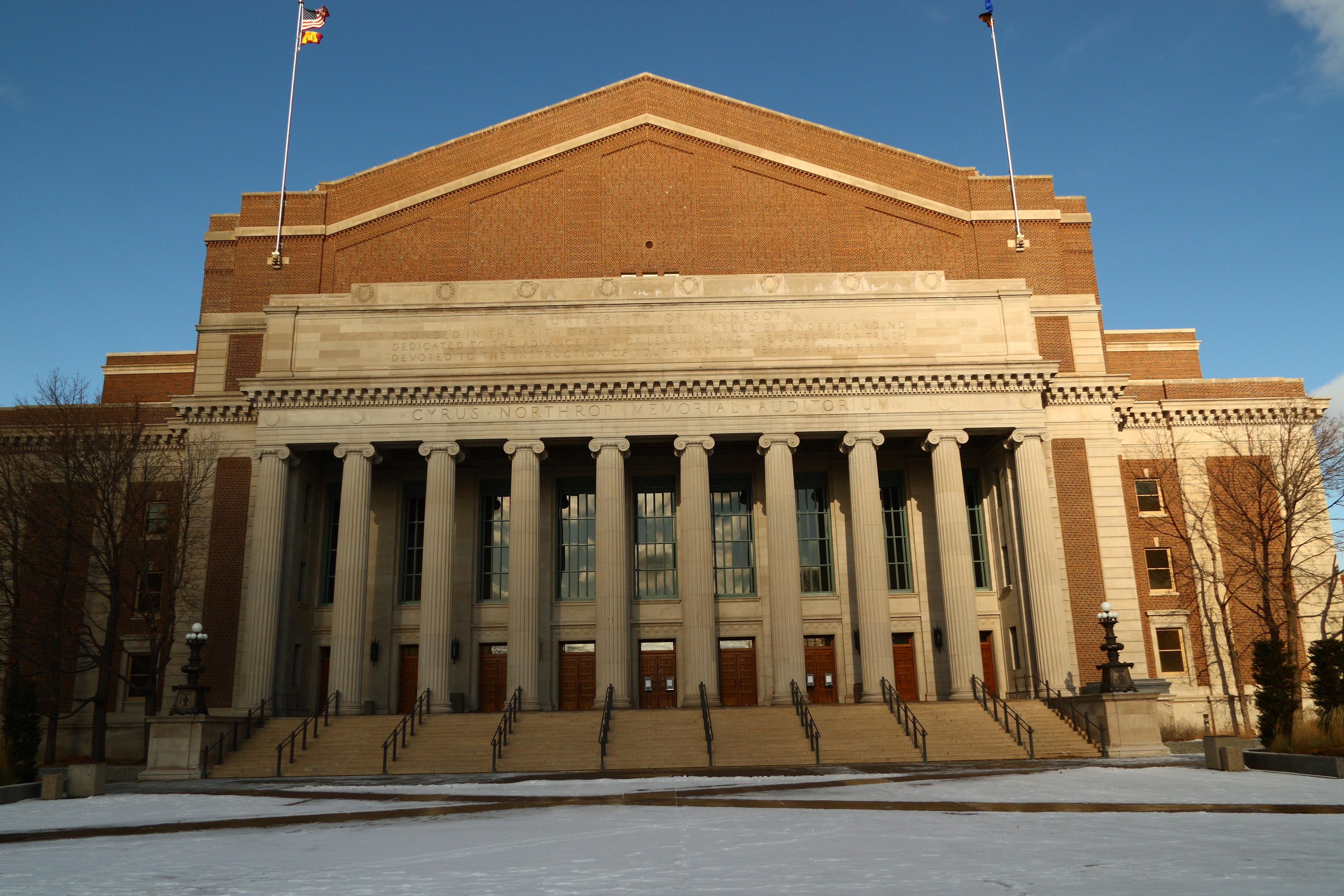 Northrop Memorial Auditorium